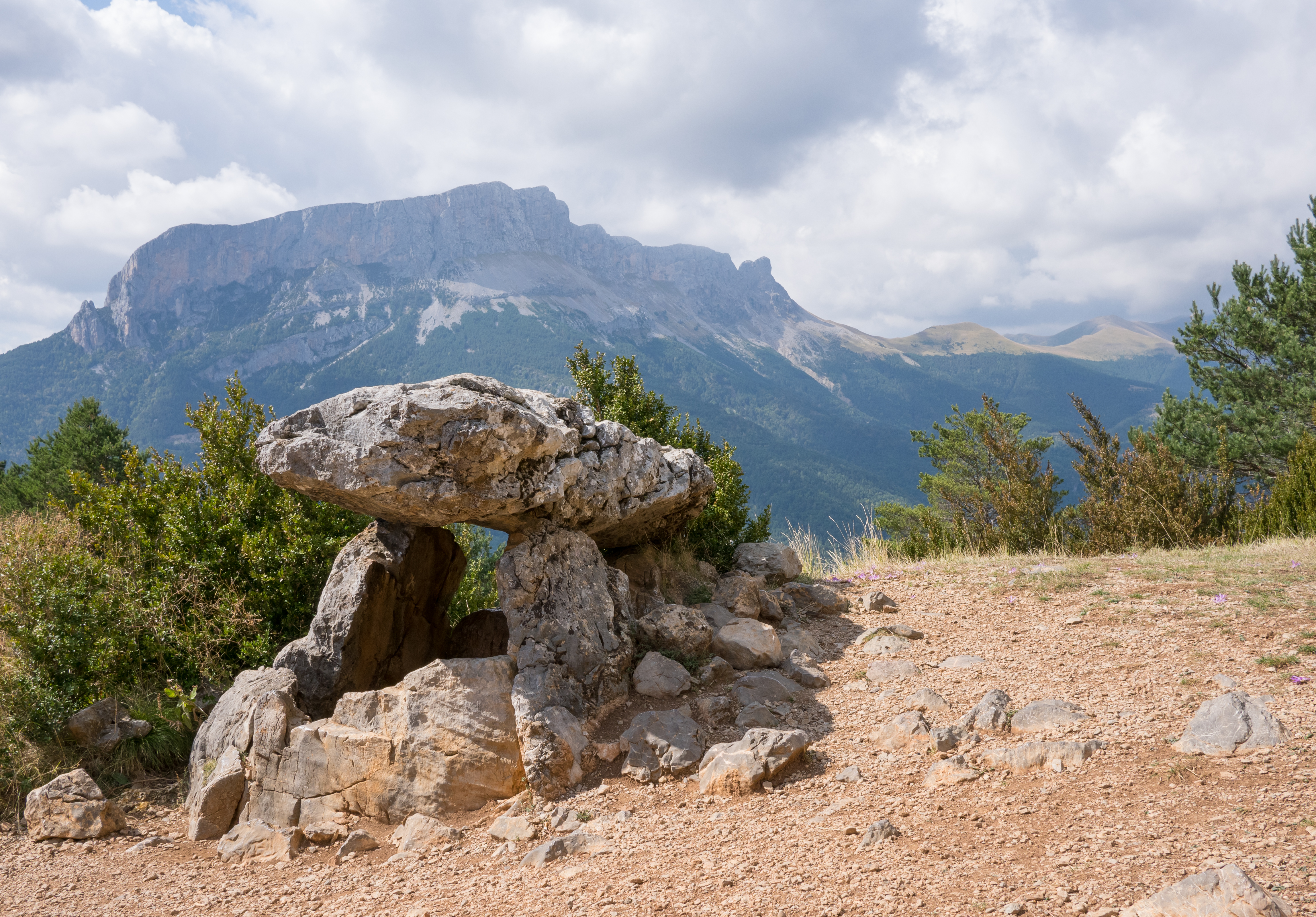 Dolmen of Tella. Sobrarbe, Aragón, Spain